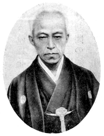 Ōhashi Sahei